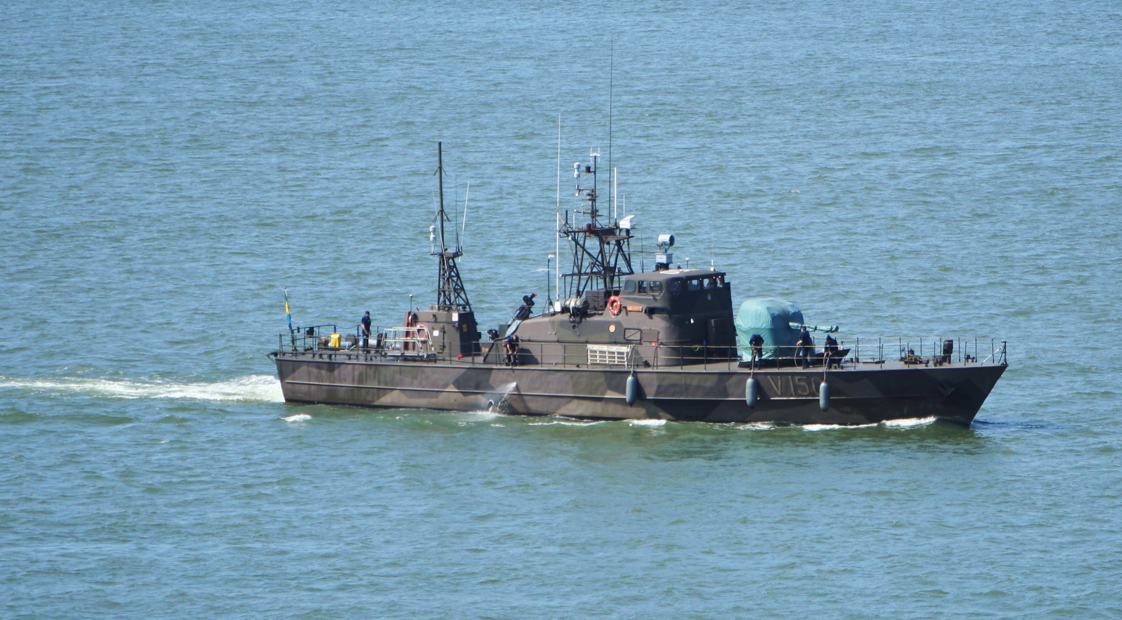 Swedish naval ship (Vedettbåt) named HMS Jägaren (The Hunter).